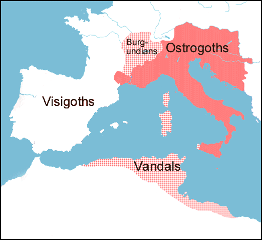 map showing Gothic influence